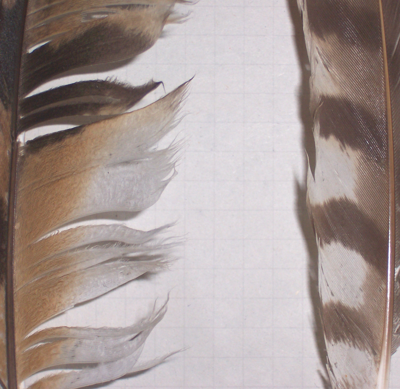 Comparison of remiges of an owl (left) and a hawk (right). The fluffy margin of owl feathers which silences their wingbeats can be seen. Missing barbs in owl feather due to damage. Species are probably Tawny Owl (Strix aluco) and Common Buzzard (Buteo buteo). Scale is 5 millimeters/square.